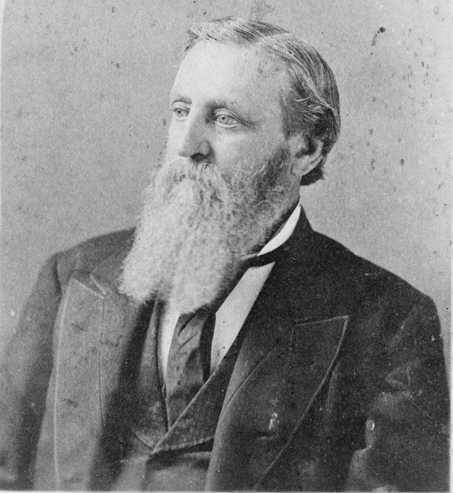 78rd Governor of South Carolin